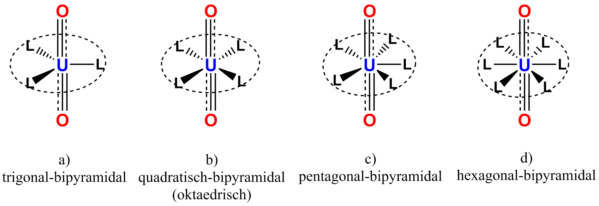 Coordination geometries of the uranyl cation (L = ligand)